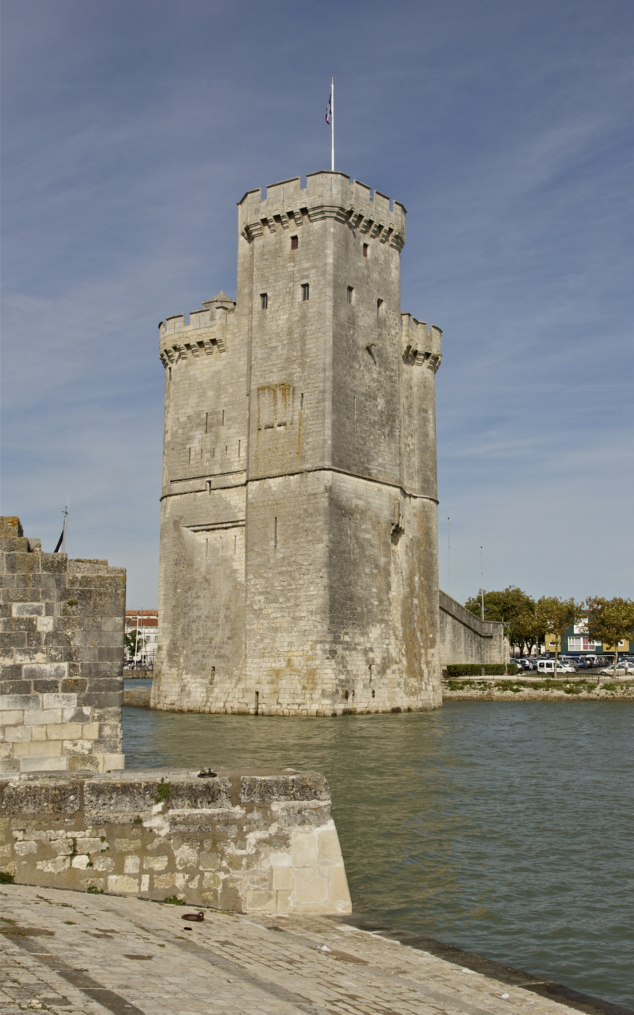 The tower Saint-Nicolas, old harbor of La Rochelle, France.